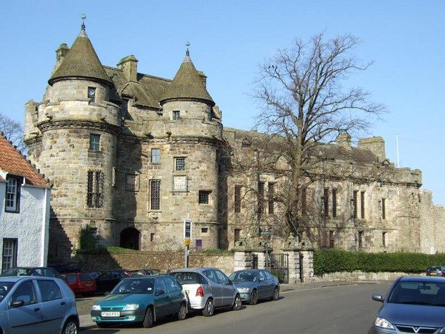 Falkland Palace Around the back